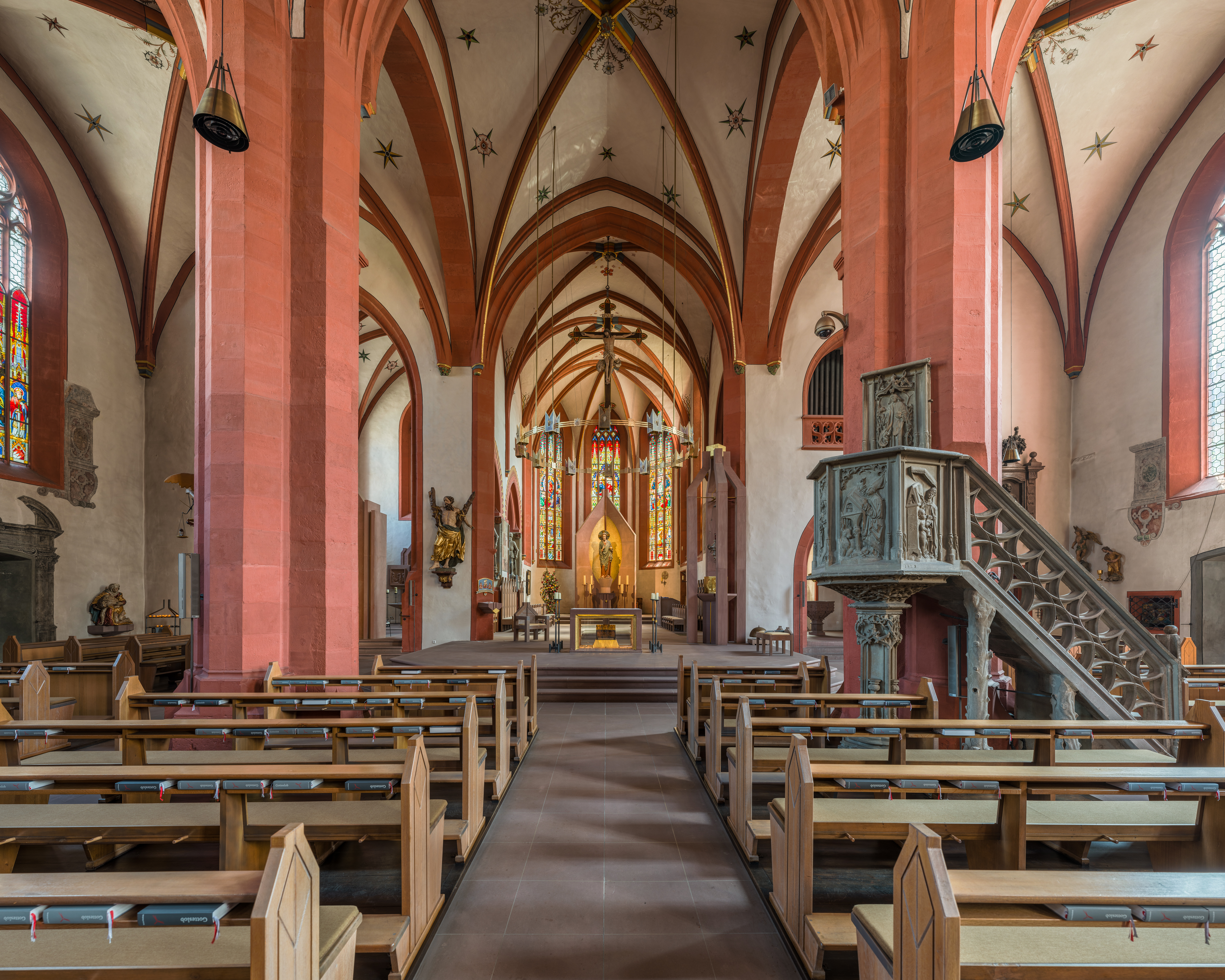 The nave of St. Andreas, Karlstadt